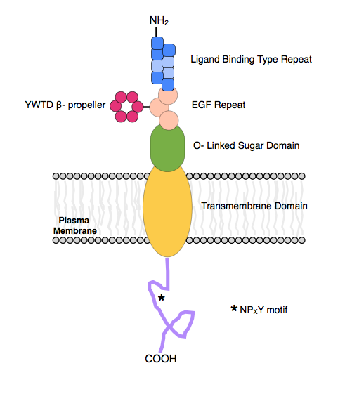 This is a user created illustration of the APOER2 protein receptor structure. It shows the entire protein in detail. The structure for this image was adapted from the APOER2 structure in File:Structure of LDL receptor family members.png which is available in Wiki Commons for Free Use. This image is also intended for free use, and is under no copyright. This image was created for use on [Apoer2